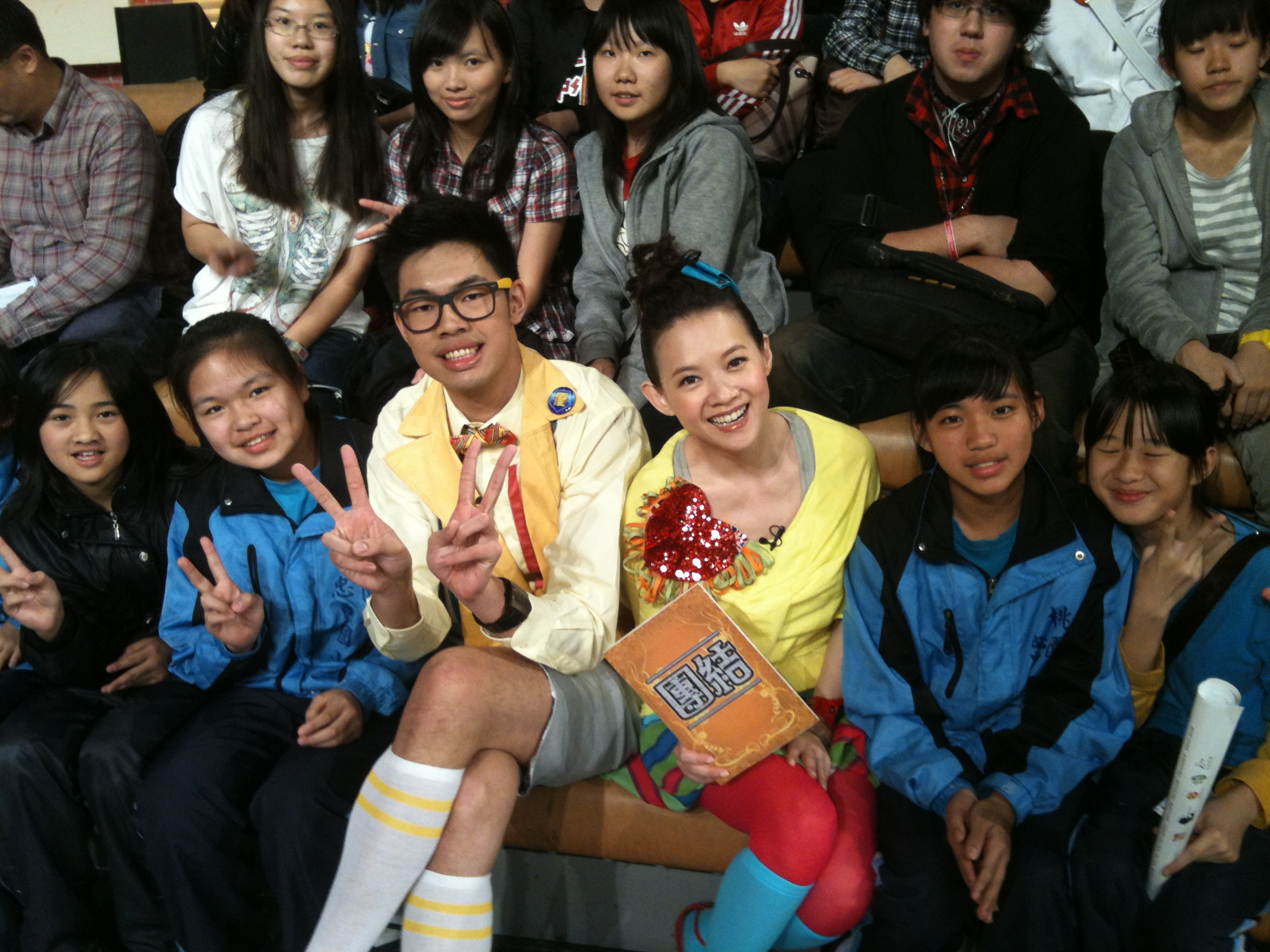 The host Bowie Tsang and Xiao-xia at the gallery in the game show The Million Primary School.